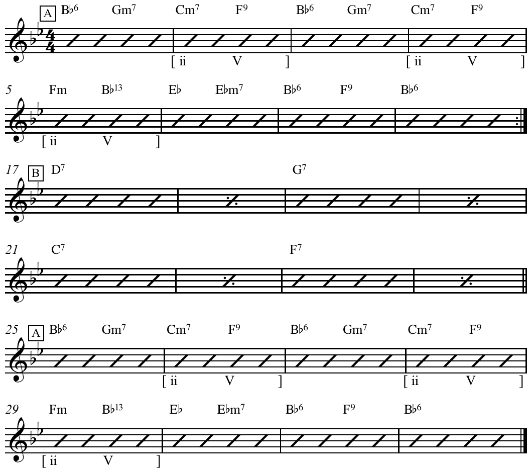 Complete 32-bar rhythm changes in B♭.